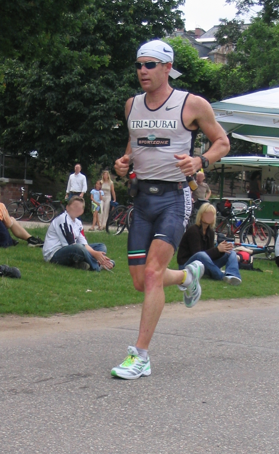 Cameron Brown competing in the Ironman Germany, Frankfurt 2005